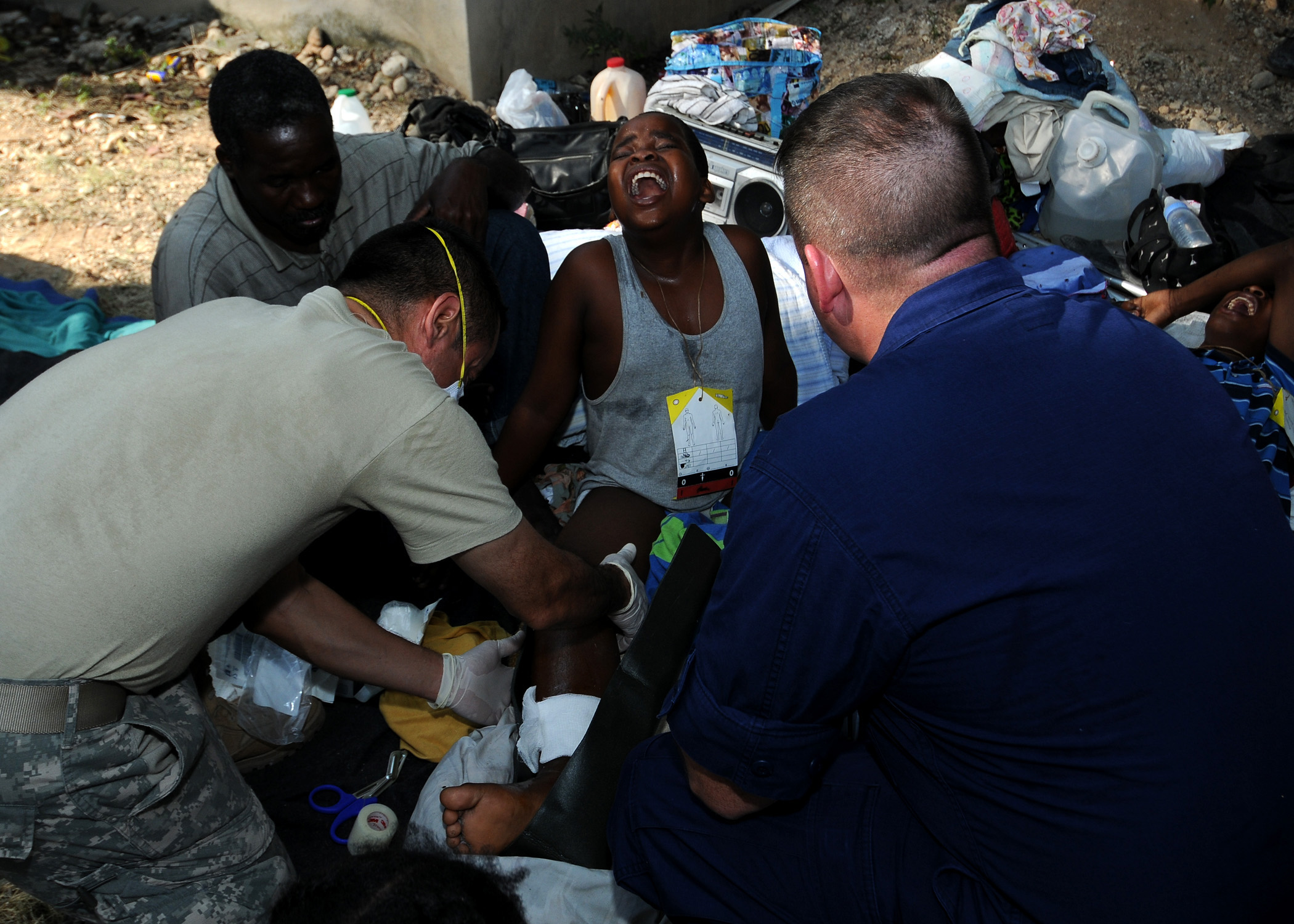 KILLICK, Haiti (Jan. 19, 2010) A Haitian woman screams in pain as U.S. military medical personnel try to set her broken leg at a clinic at the Killick Haitian Coast Guard Base. Service members from a joint medical surgical team and several U.S. Navy and U.S. Coast Guard units are providing medical care as part of Operation Unified Response to victims of a 7.o magnitude earthquake that struck Haiti Jan. 12. (U.S. Navy photo by Mass Communication Specialist 1st Class Martine Curaron/Released)